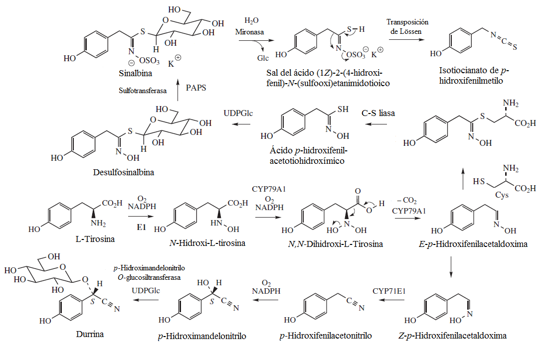 Sinalbin and dhurrin biosynthesis scheme